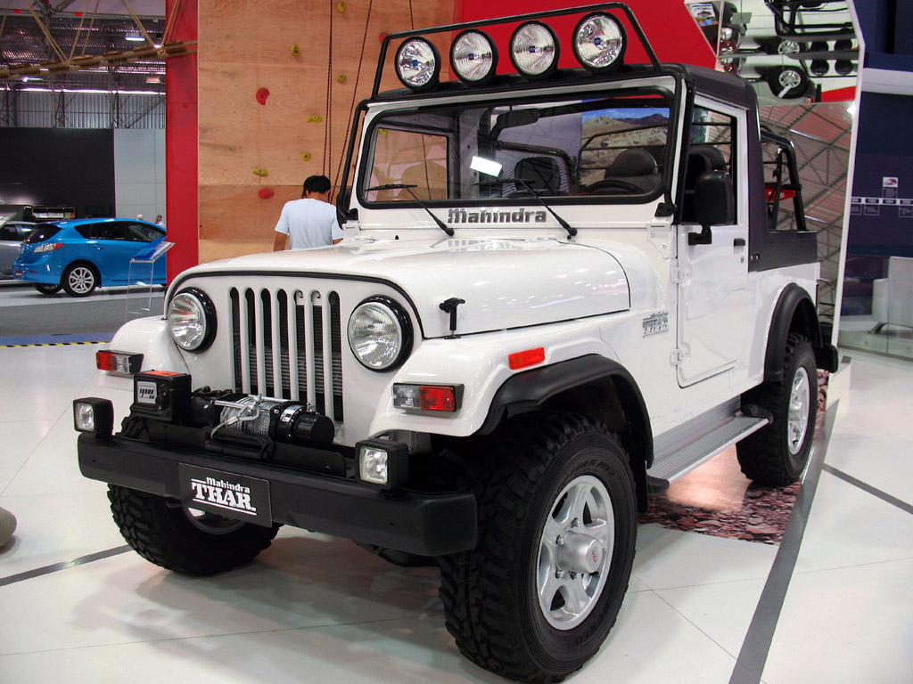 Mahindra Thar 2.5 CRDe 2011